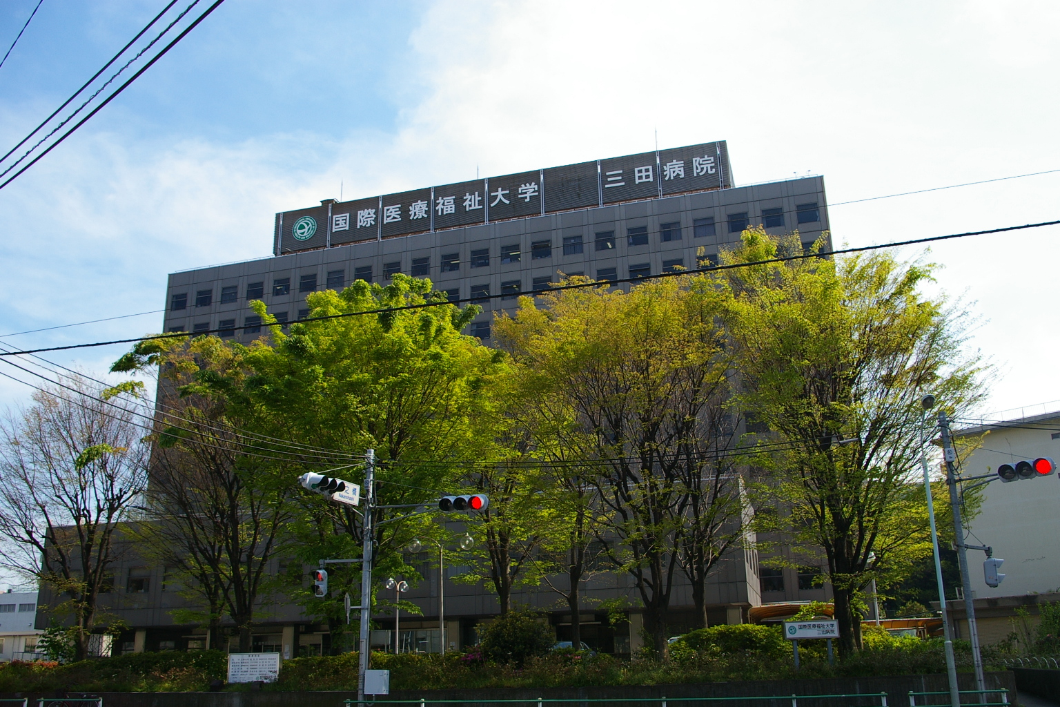 Japanese International University of Health and Welfare Mita Hospital.